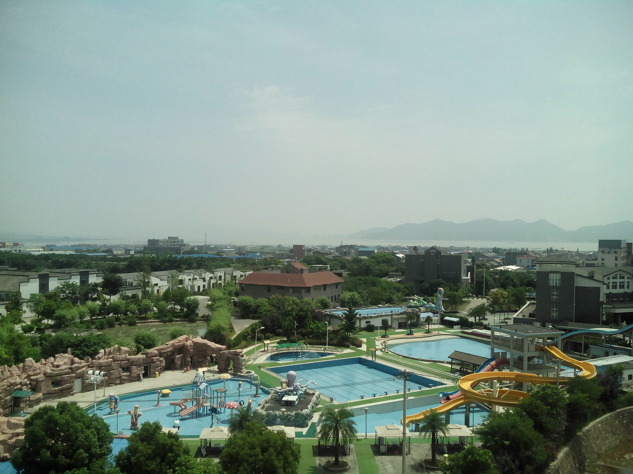 201406 Dongkoumiao, Xidian, Ninghai